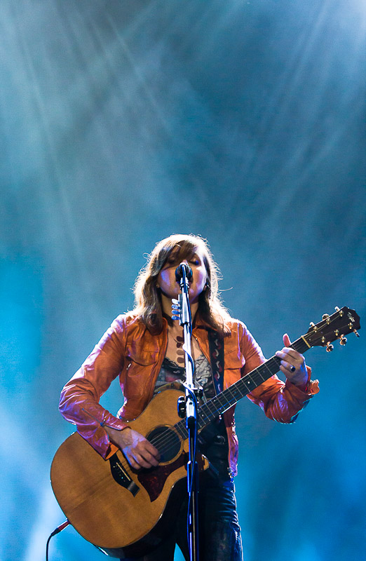 Polish singer Edyta Bartosiewicz at Orange Warsaw Festival